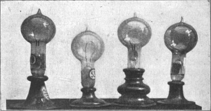 Photo of early paper filament incandescent electric light bulbs invented by Thomas Alva Edison in 1879. The caption read: 'Edison's famous horseshoe paper-filament lamp of 1870. Copyright 1904 by William J. Hammer.' Alterations: cropped out caption and frame, increased brightness slightly.